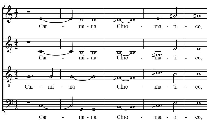 Composition by Orlando Di Lassus. "Carmina Chromatico", Prophesiae Sybillarum.